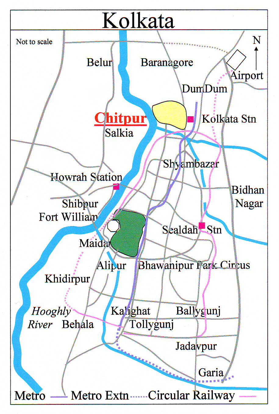 Own creation